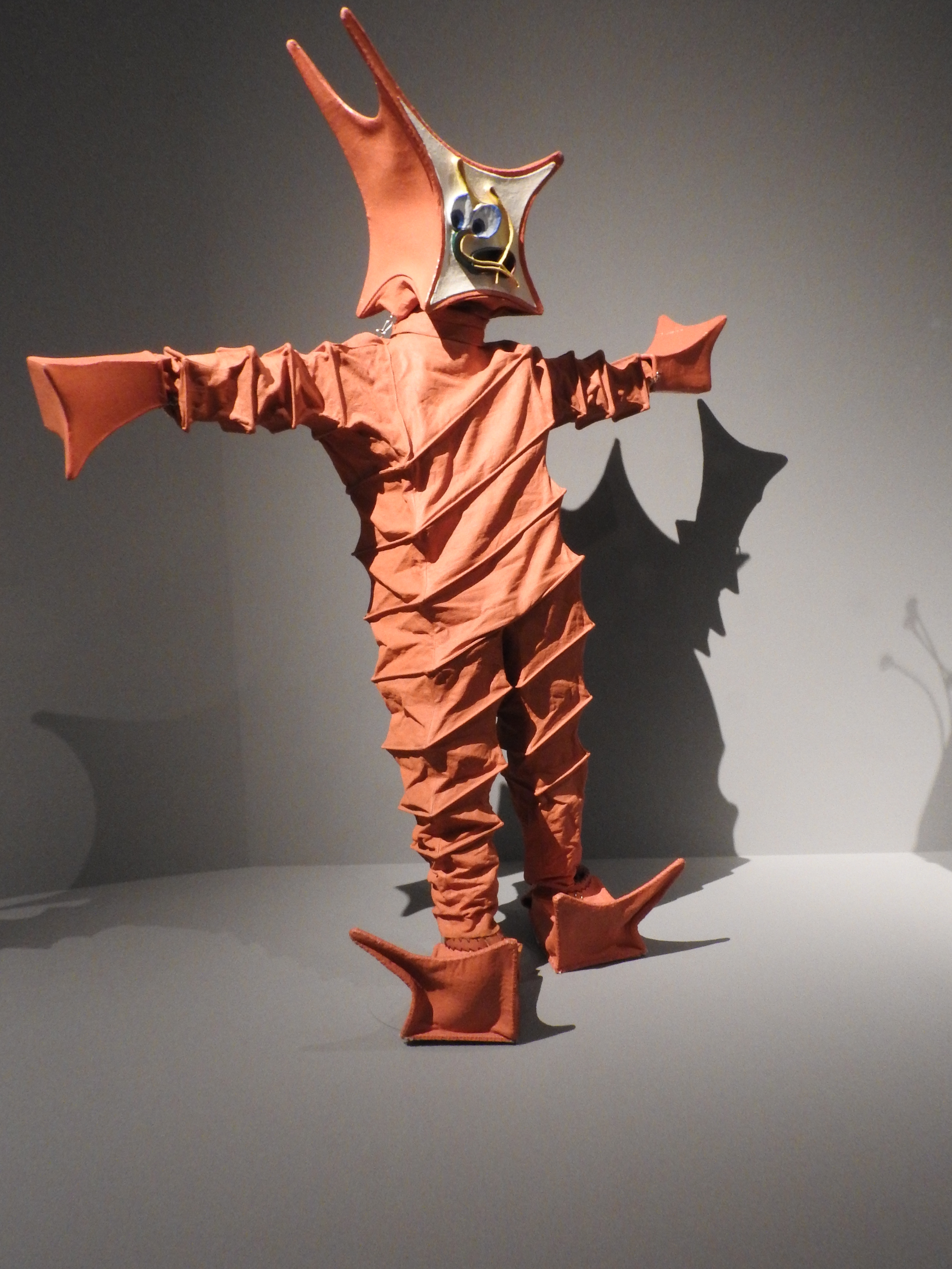 expressionist artist Lavinia Schulz (1896-1924); full body suit